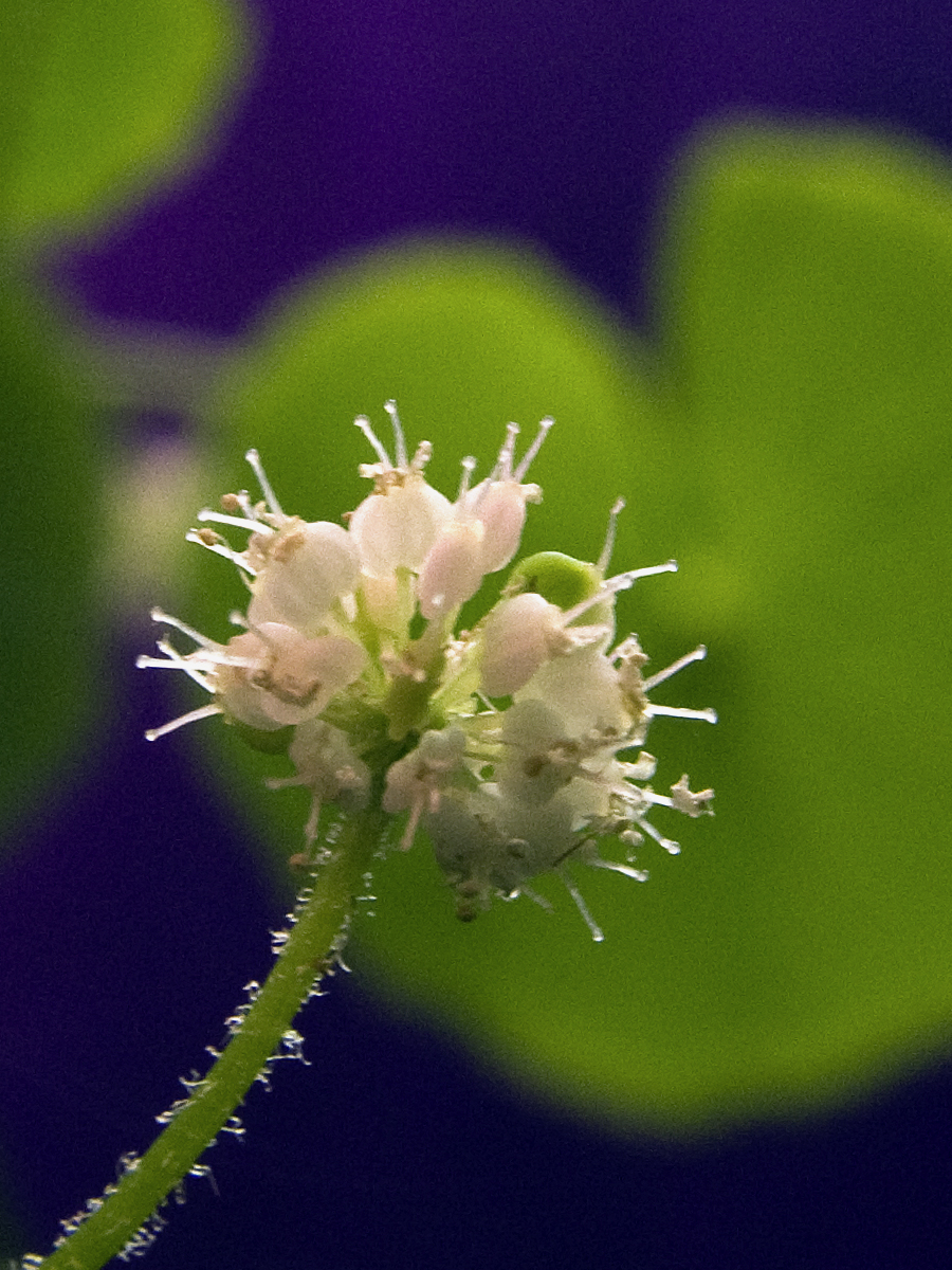 Hydrocotyle vulgaris ( Wikipedia: )